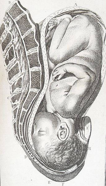 Vertex presentation, occiput anterior. Original captioning (as show at ): A. The Uterus contracted closely to the Foetus after the waters are evacuated. B. C. D. The Vertebrae of the loins, Os Sacrum and Coccyx. E. The Anus. F. The left hip. G. The Perineum. H. The Os Externum beginning to dilate. I. The Os Pubis of the left side. K. The remaining portion of the bladder. L. The posterior part of the Os Uteri.